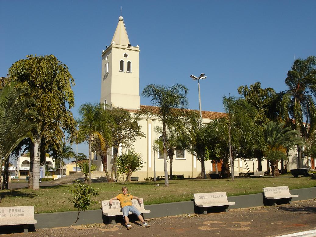 Church of Presidente Epitácio